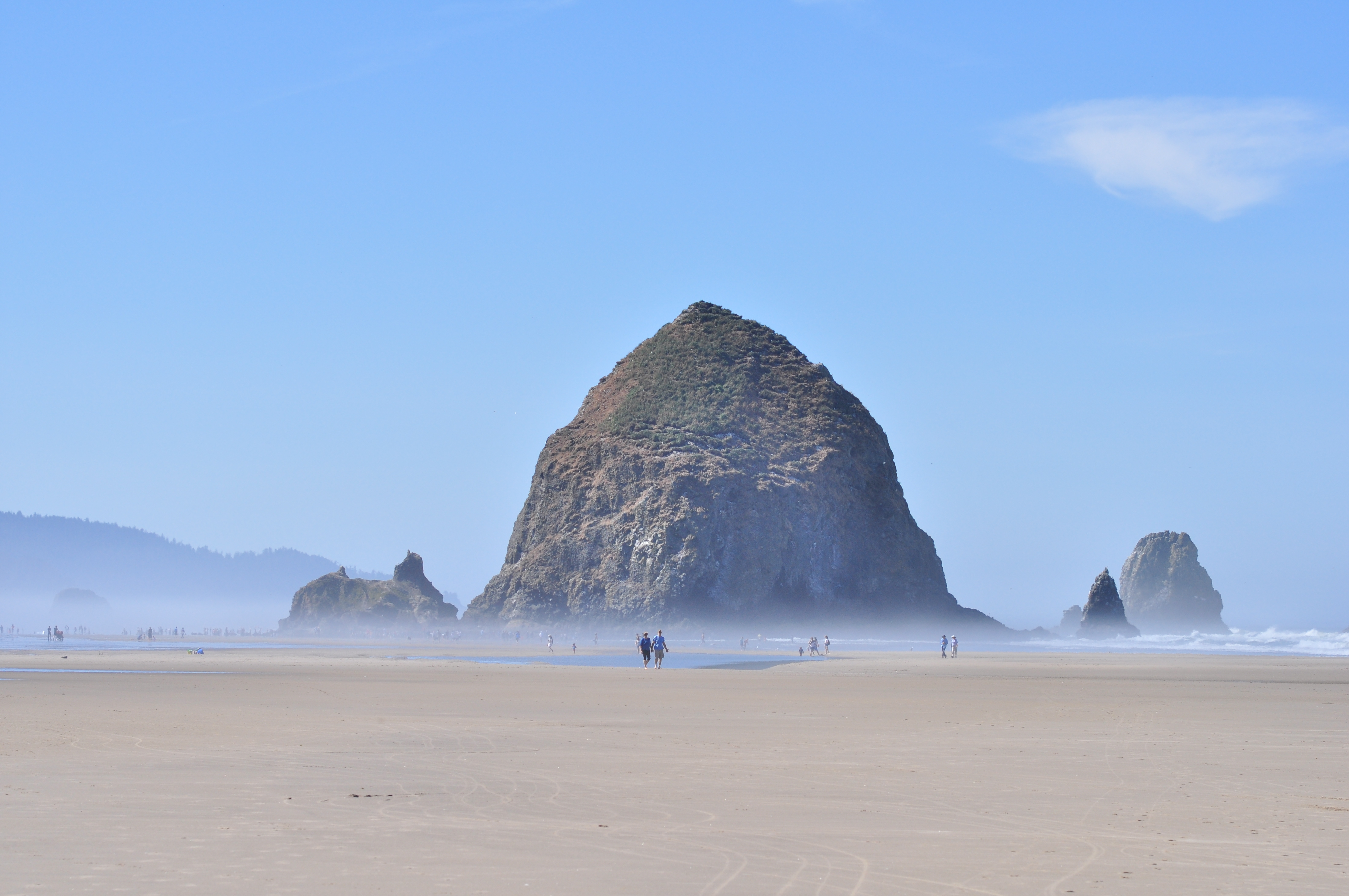 Haystack Rock, Cannon Beach, Oregon, U.S., from the north.